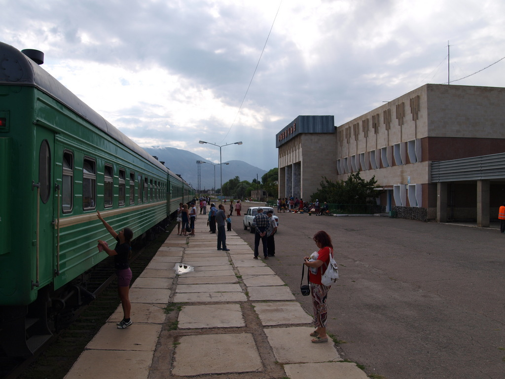 Balykchy (Rybatchye) railway station, Kyrgyzstan.